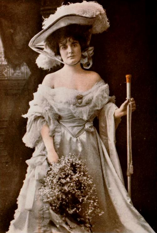 Tinted picture of American actress Irene Bentley (1870 – 1940), from her article "Physical Culture an Essential in the Life of an Actress" on page 306 of the October 1908 Physical Culture magazine.